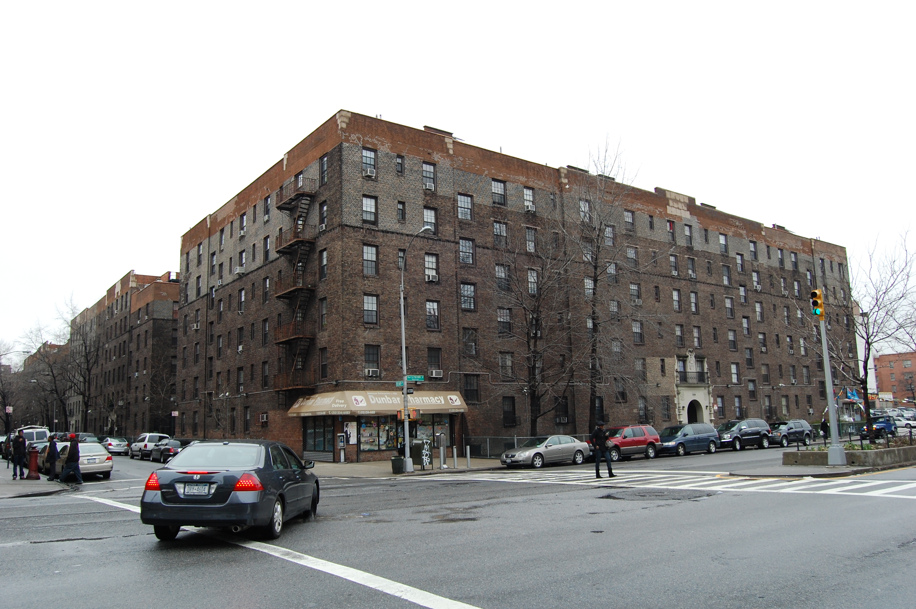 This photo is of Wikipedia Takes Manhattan location code 56, Dunbar Apartments.